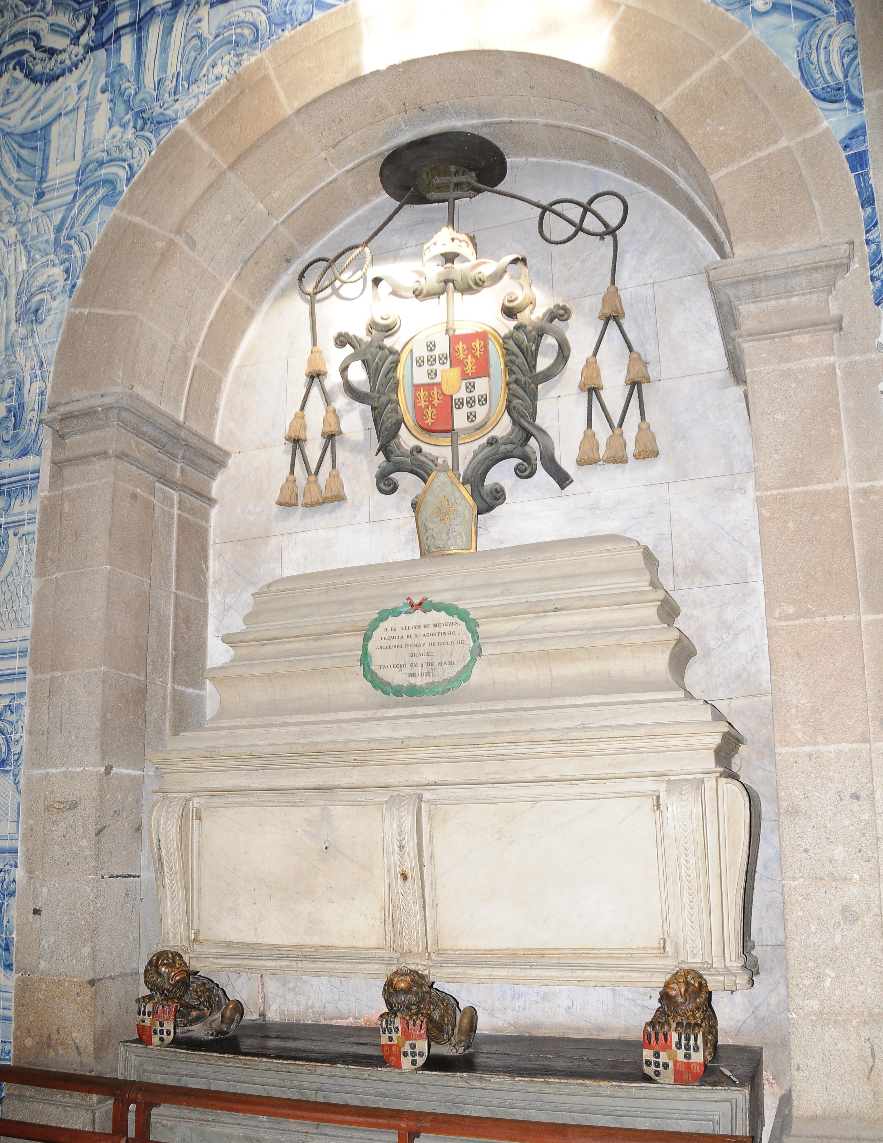 Tomb of Aleixo de Menezes, Archbishop of Braga, in Populo Church, Braga, Portugal.